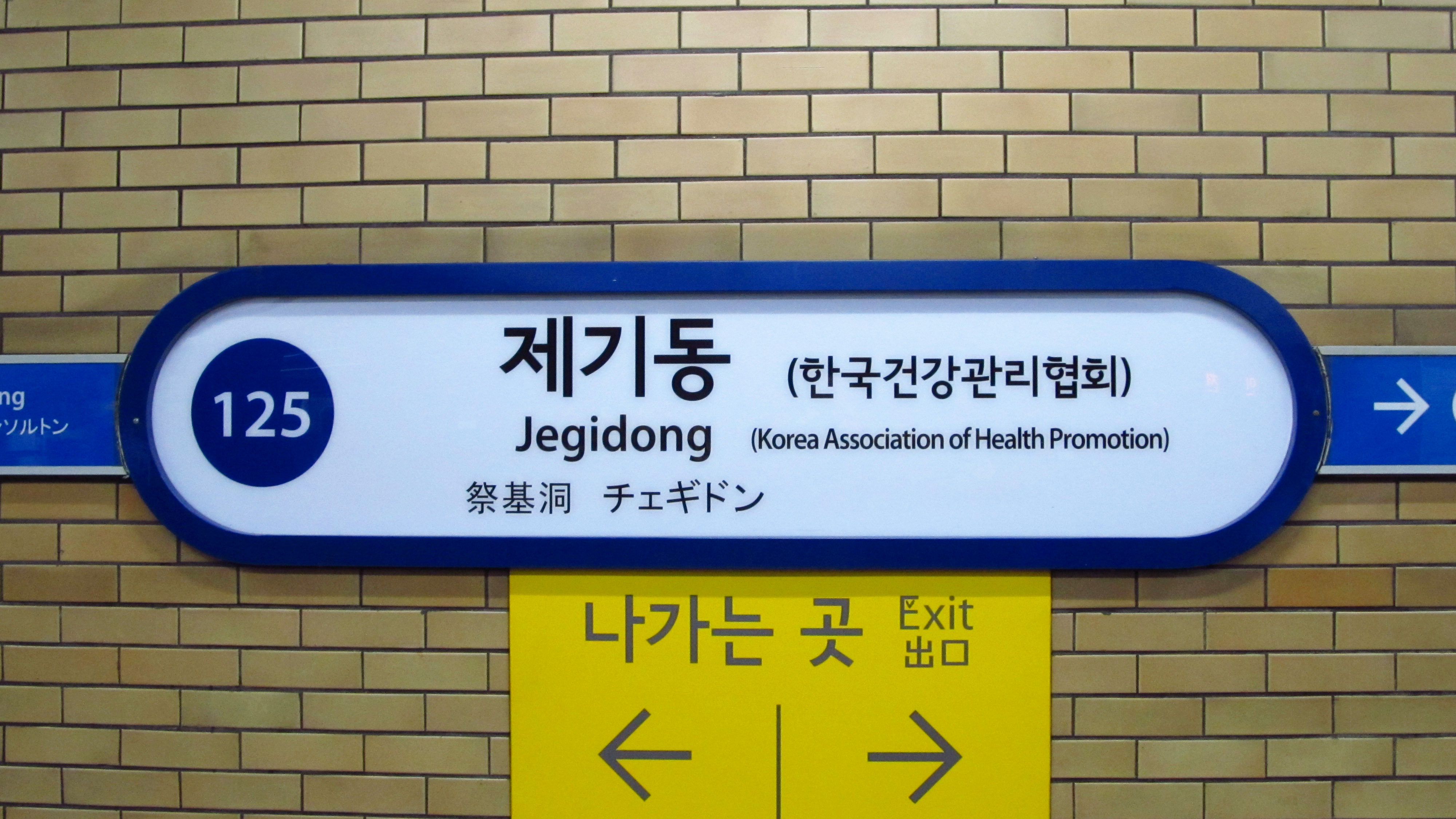 A sign of Jegidong Station on Seoul Subway Line 1